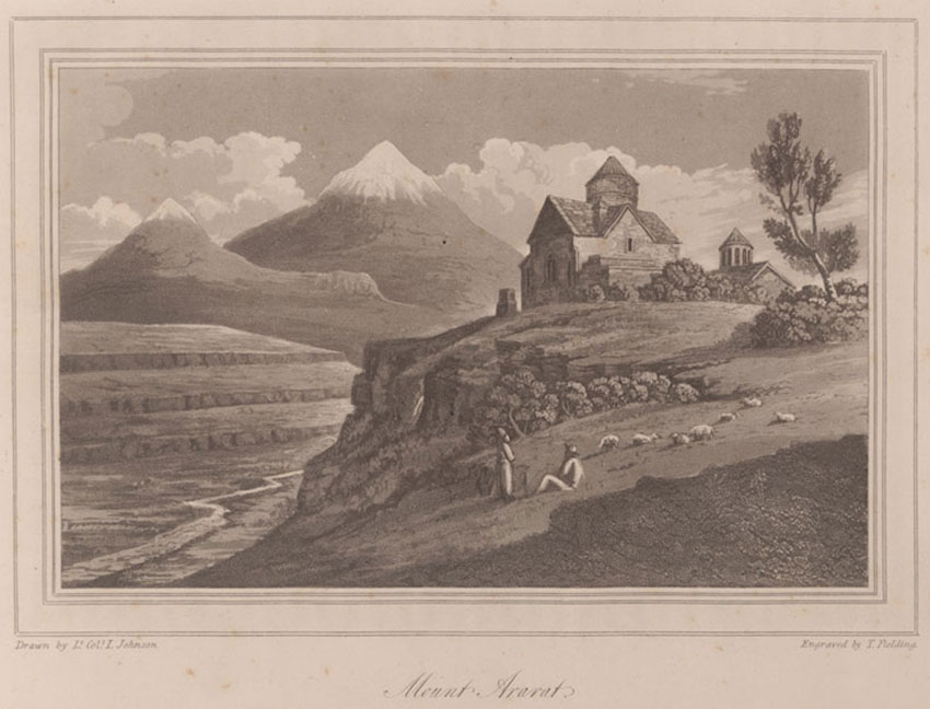 View of Mount Ararat in Turkey. Printmaking from the "A journey from India to England, through Persia, Georgia, Russia, Poland, and Prussia, in the year 1817" by Lieut. Col. John Johnson (1768 — 1846). Engraved by Theodore Henry Adolphus Fielding (1781 – 1851)